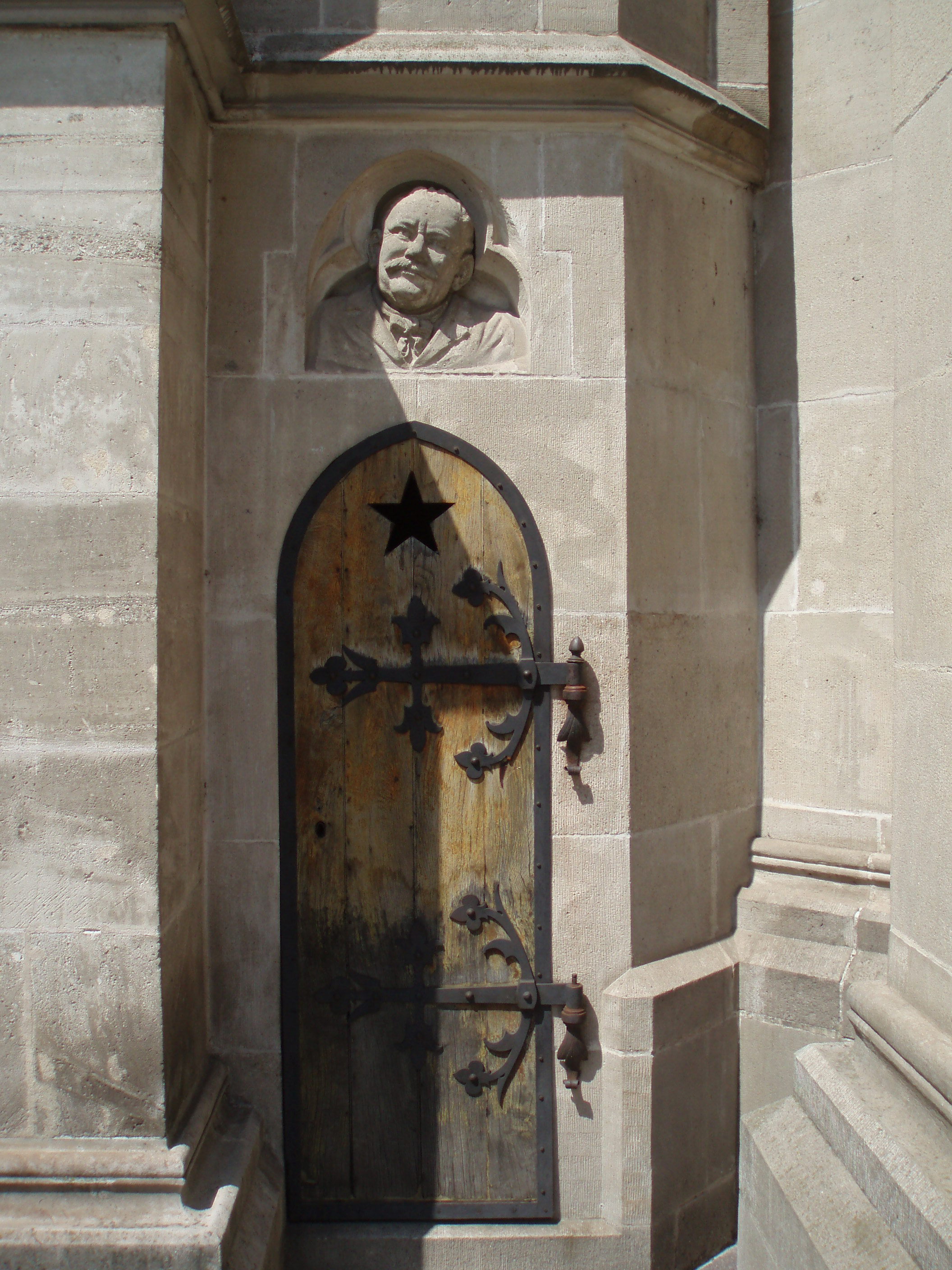 Master Webers portrait, St.Elisabeth Košice